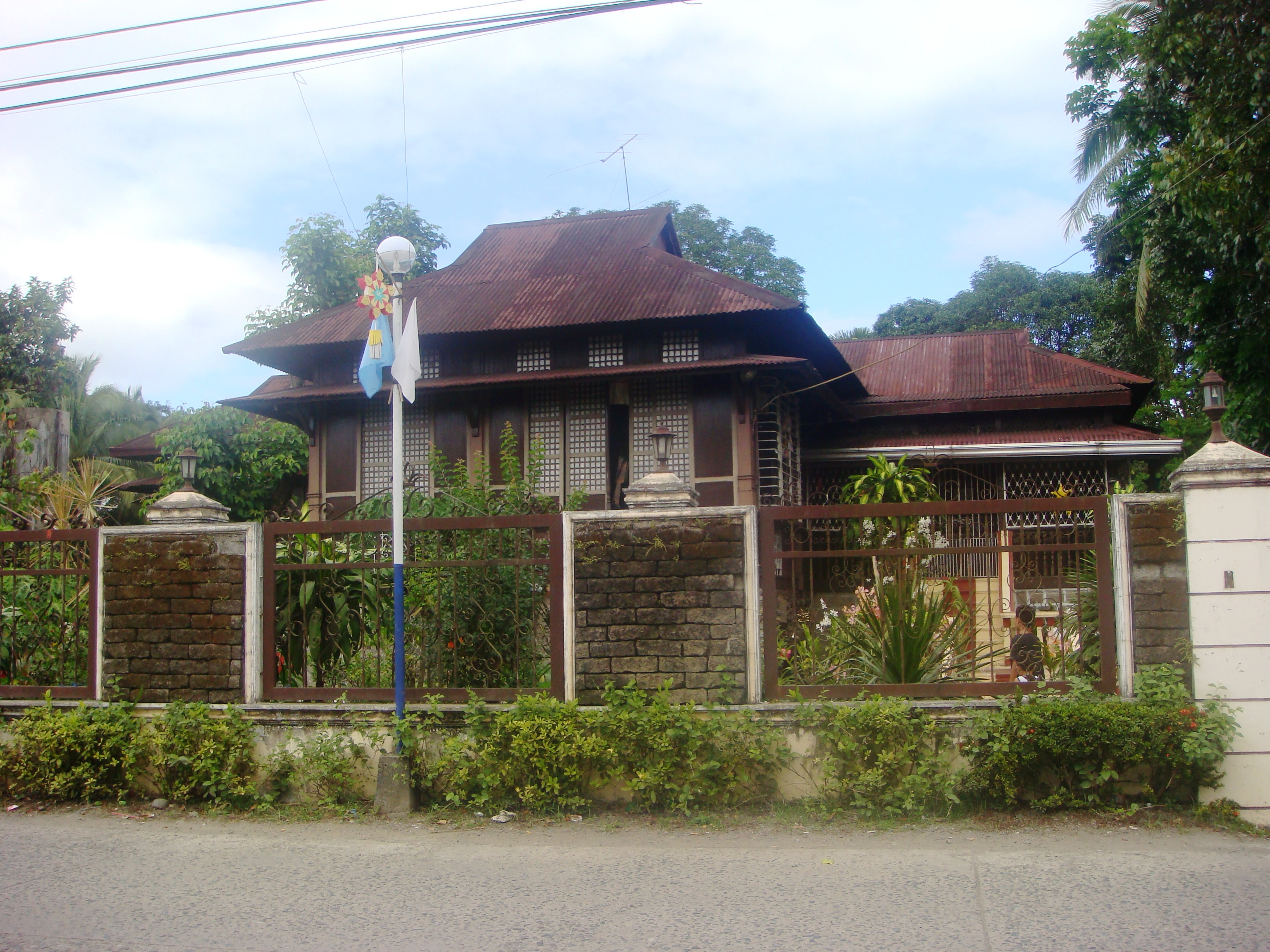 1870 ancestral house (Marungko), owned by Don Vicente Villarama & Dona Rafaela Capistrano, sugar and rice hacenderos, and children Antonio, Paula, Jose and Juan (has 4 children including Nelia Villarama Siggaoat, Manels[1] Philippines[2]